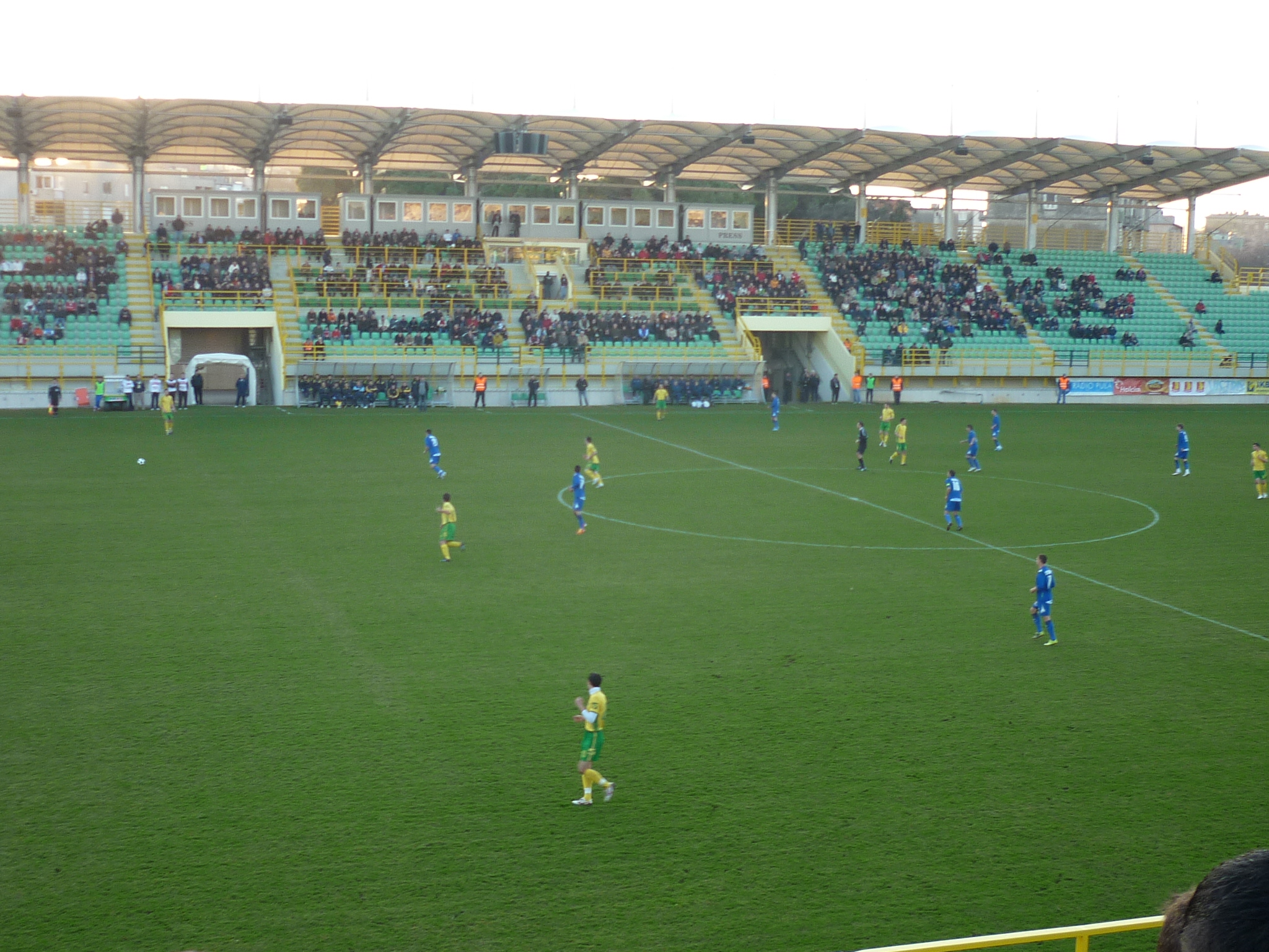 Match of Istra 1961 and Dinamo Zagreb on stadium Aldo Drosina